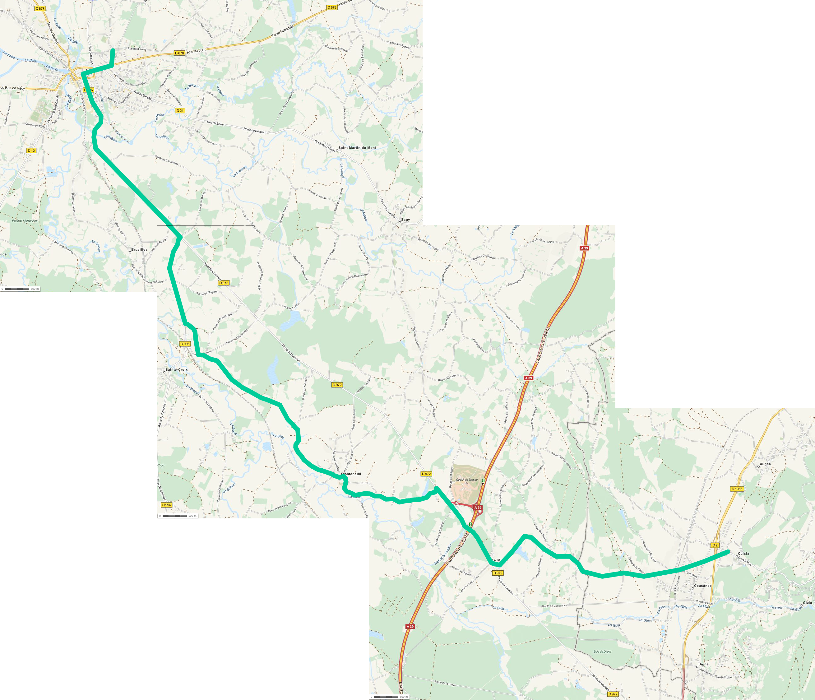 Karte der Römerstrasse von Louhans nach Cuisia Carte de la voie romaine de Louhans à Cuisia This map may be incomplete, and may contain errors. Don't rely solely on it for navigation.